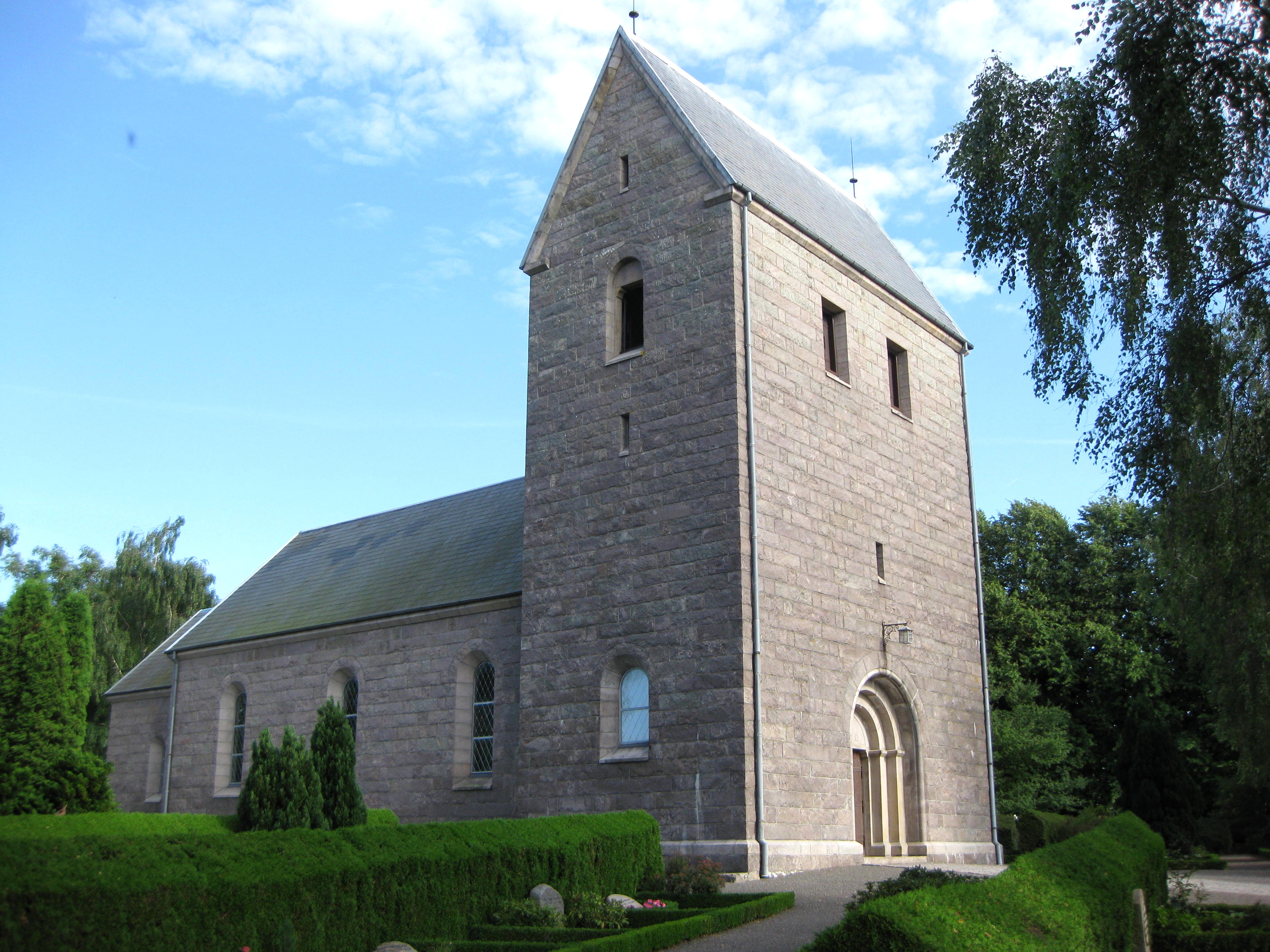 The church "Rø Kirke" in the village "Rø". The village is located on the island Bornholm in east Denmark.